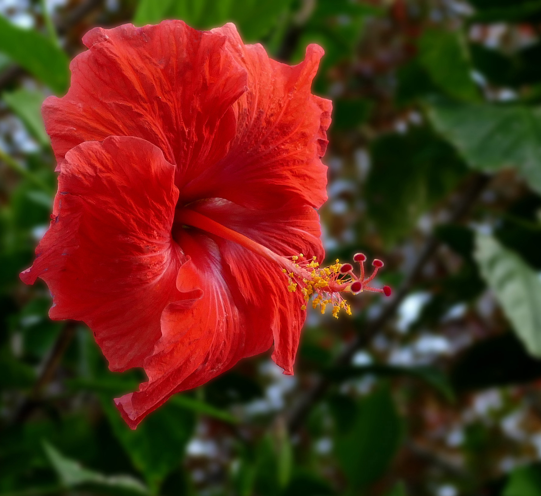 Flower from my yard